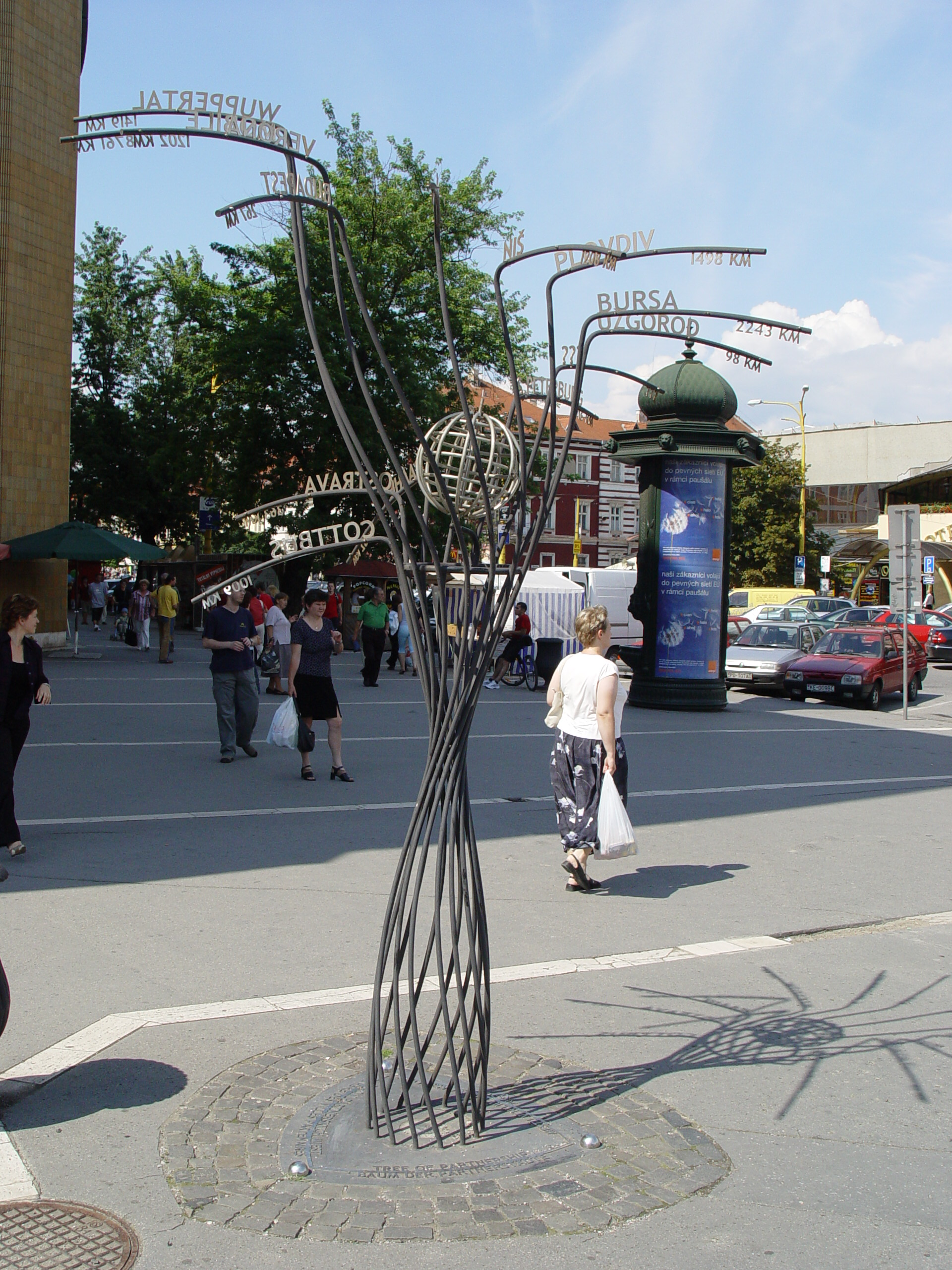 Slovakia, Košice, Tree of Partnership on Main Street, design by Tomáš Grega